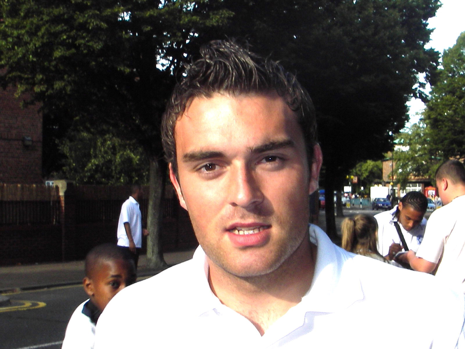 Lee Camp, English footballer.